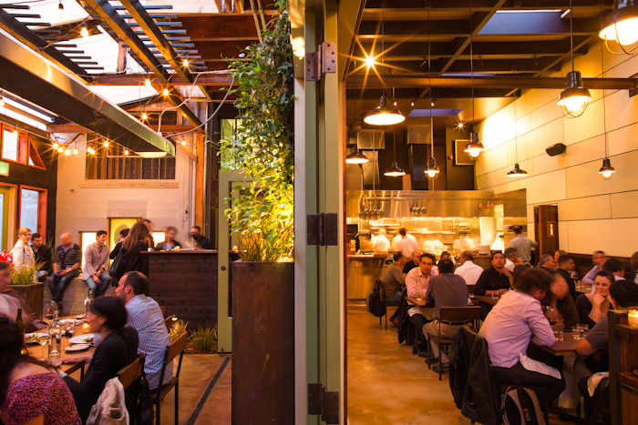 Californian cuisine restaurant.